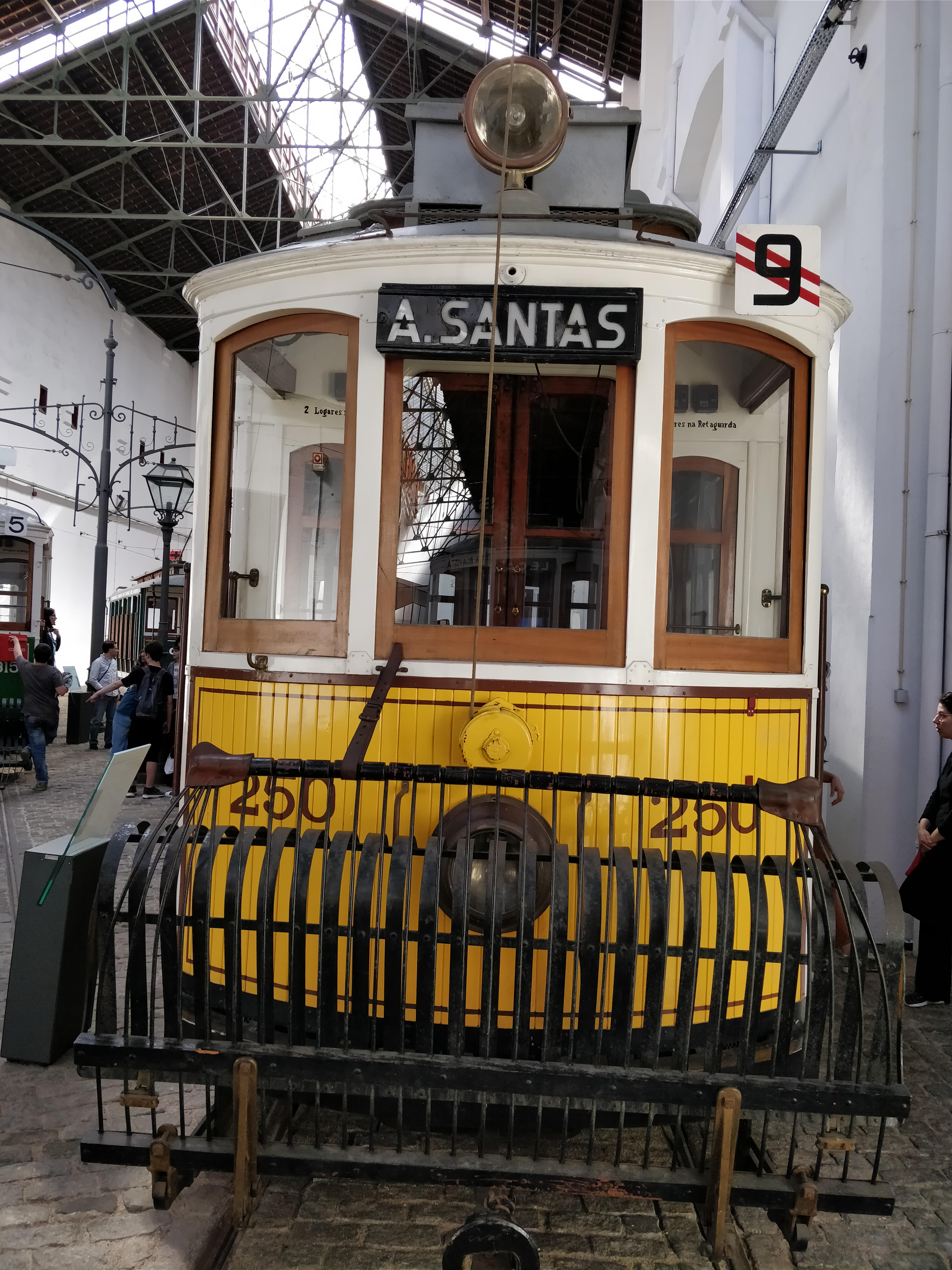 Circulating until 1981 these vehicles were called "Italian cars" because they were equipped with engines of the Compagnia Generale di Electtricitá in Italy.